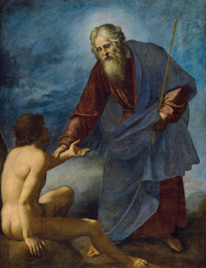 The Creation of Adam, oil on canvas painting by Jacopo Da Empoli (Jacopo Chimenti), 1632, 76 x 57.1 inches, Uffizi Gallery